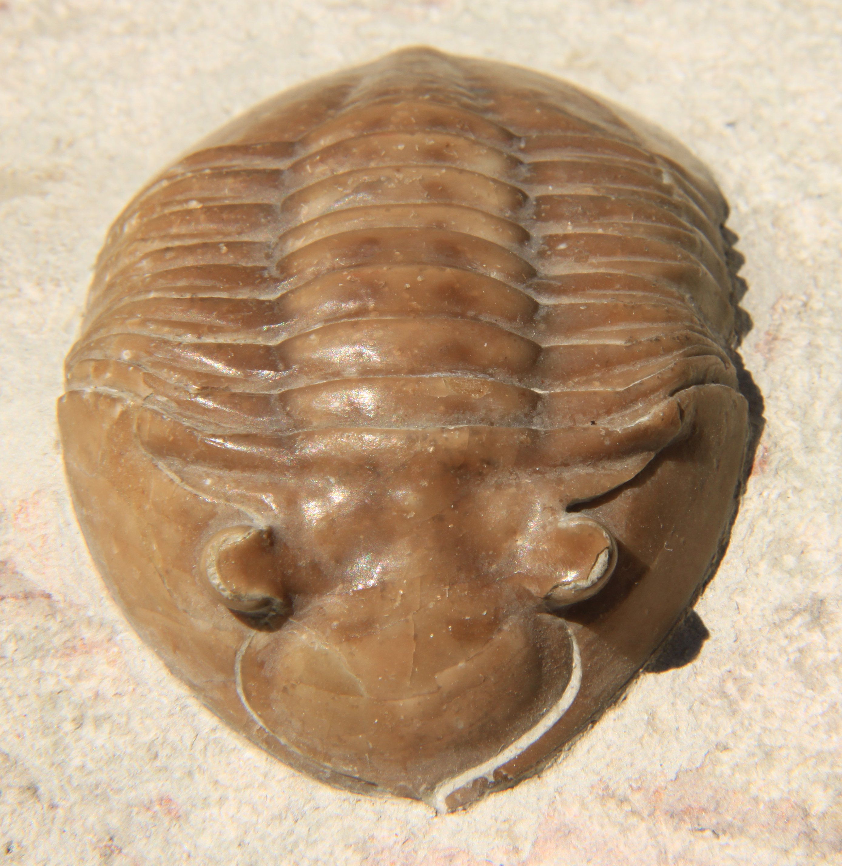 The trilobite Asaphus latus, Order Asaphida, Family Asaphidae, 58mm along the axis, oblique frontal dorsal view of cephalon and thorax, found at the Vilpovitsky Quarry near Petrograd, Russian Republic, from the Lower Ordovician